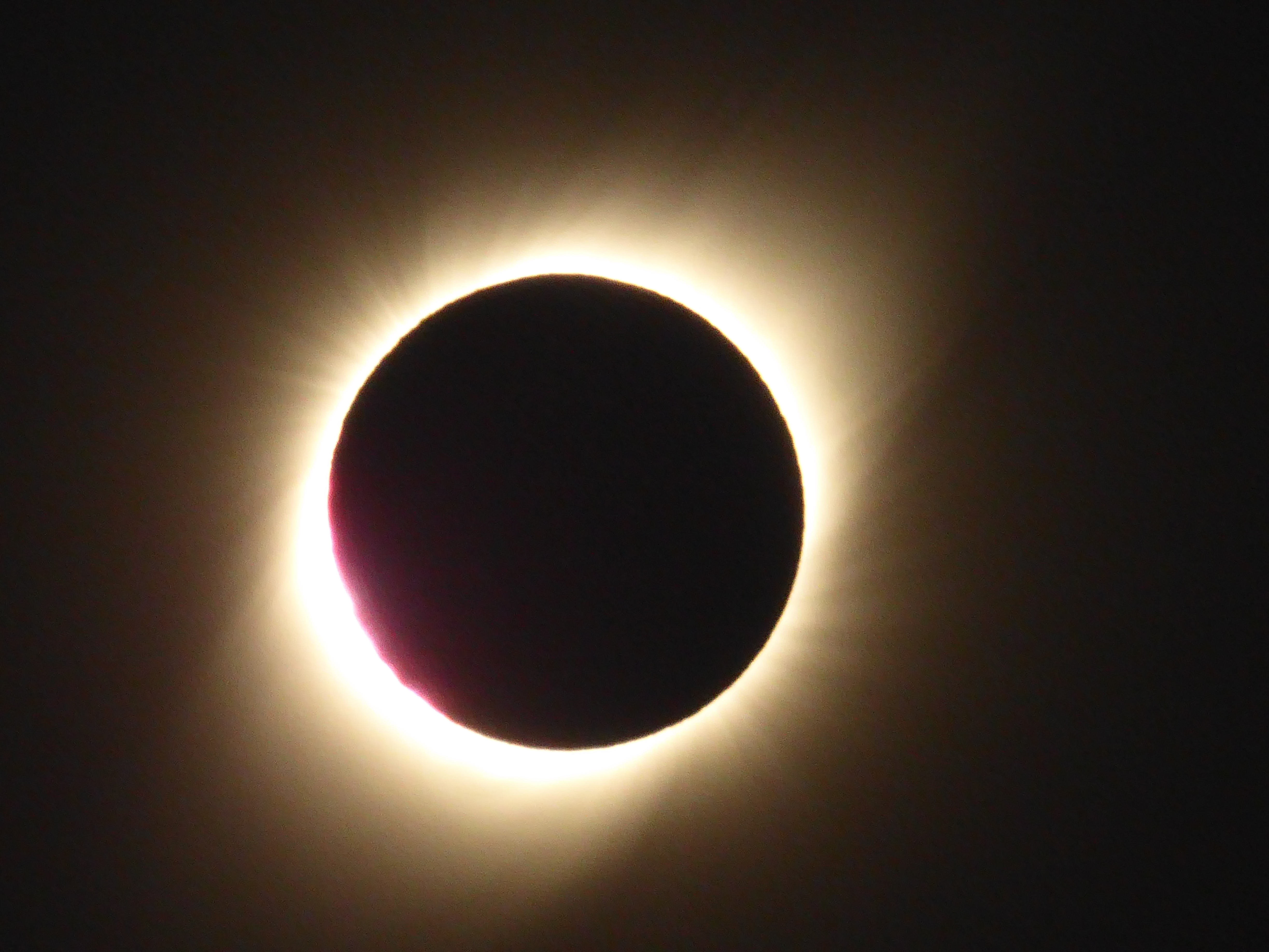 Totality of the solar eclipse of July 2, 2019, captured from La Serena, Chile